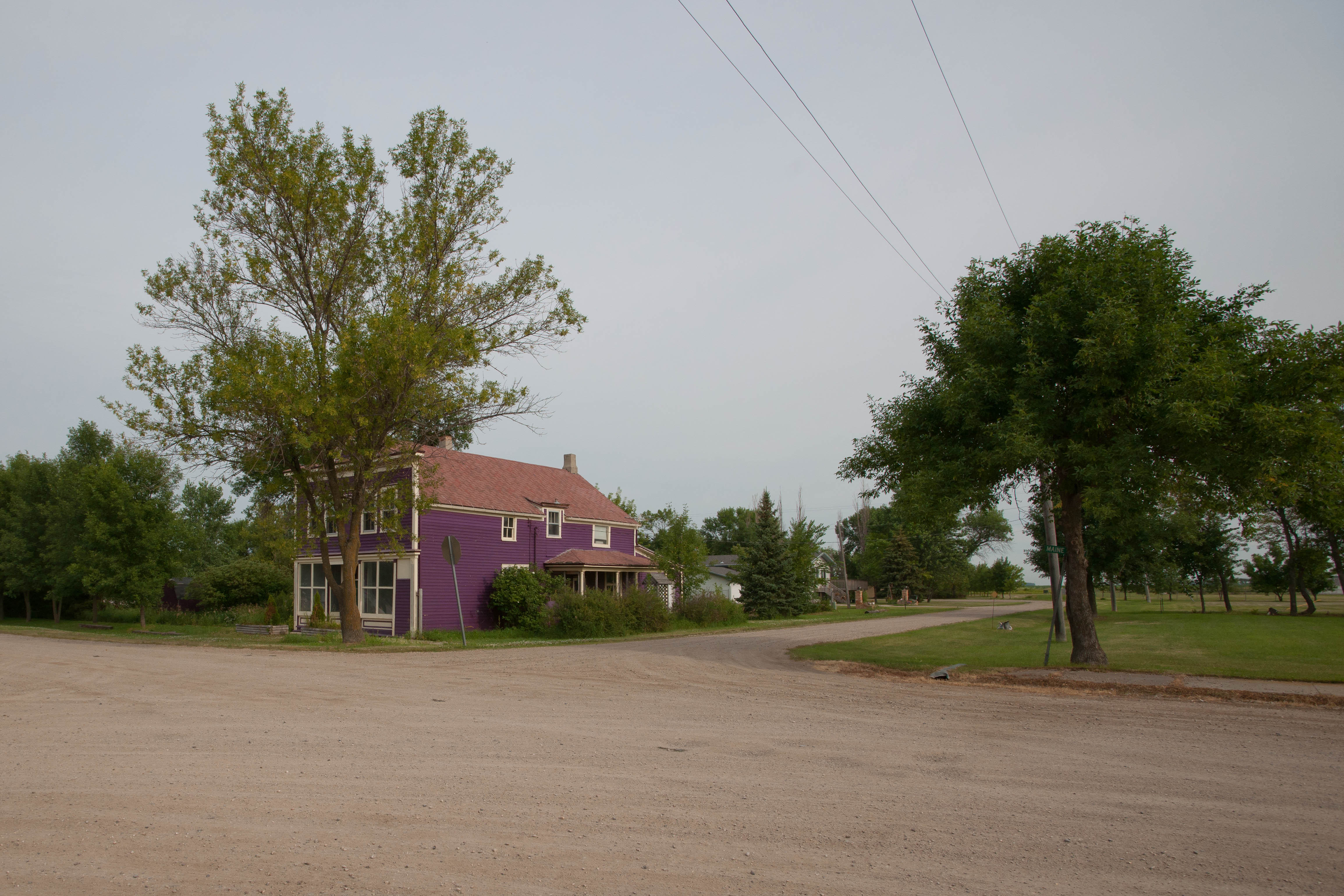 The purple building is the NRHP-listed post office in Christine, North Dakota. A view on Google Maps suggests the building has been demolished by September 2013.